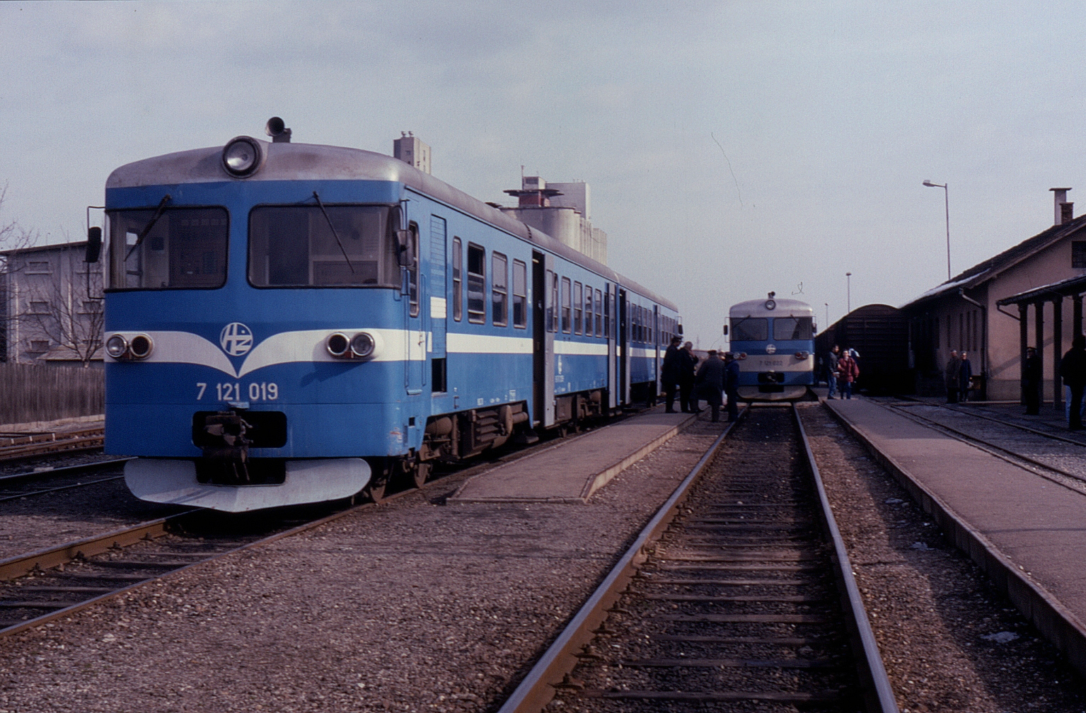 Croatian Railways (HŽ) class 7121 DMUs cross over at Požega on the branch from Pleternica to Velika seen on 12 February 1997.